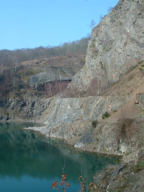 Gullet Quarry - from East. Southern End of the Malvern Hills, the Gullet is a quiet spot, much frequented by geologists and dare-devil swimmers on hot days